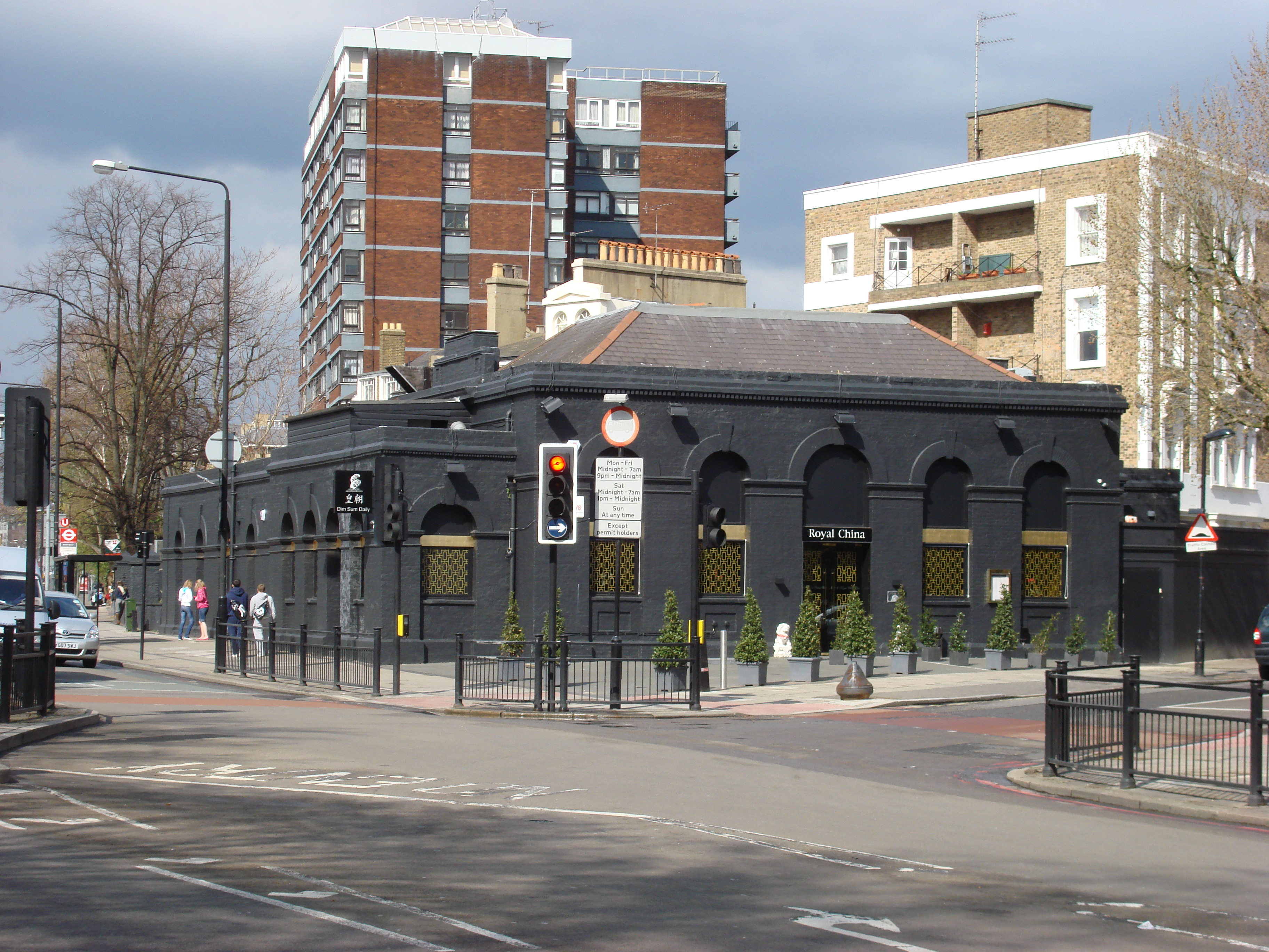 The former Marlborough Road tube station opened in 1868 and Closed 1939. Now a restaurant.